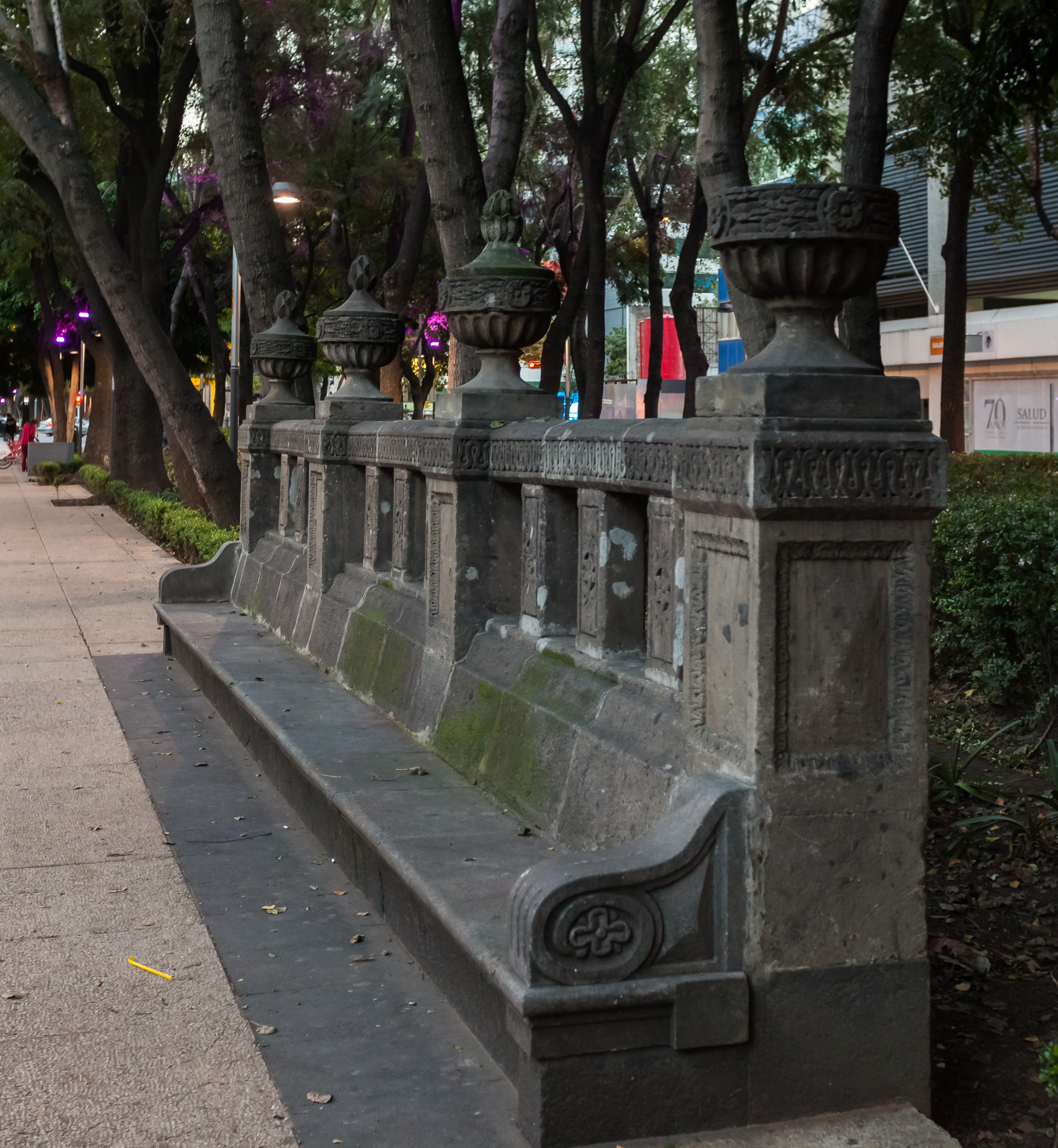 Bench in the Paseo de la Reforma, Mexico City, Mexico